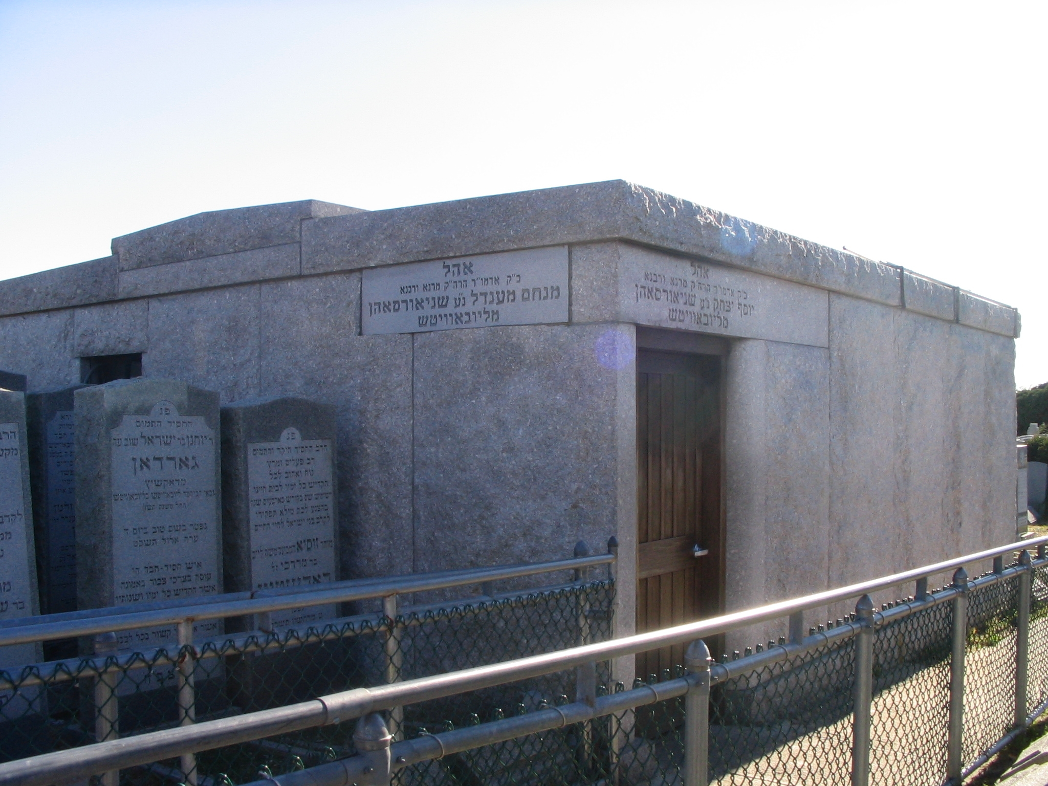 ohel the Lubavitcher Rebbe